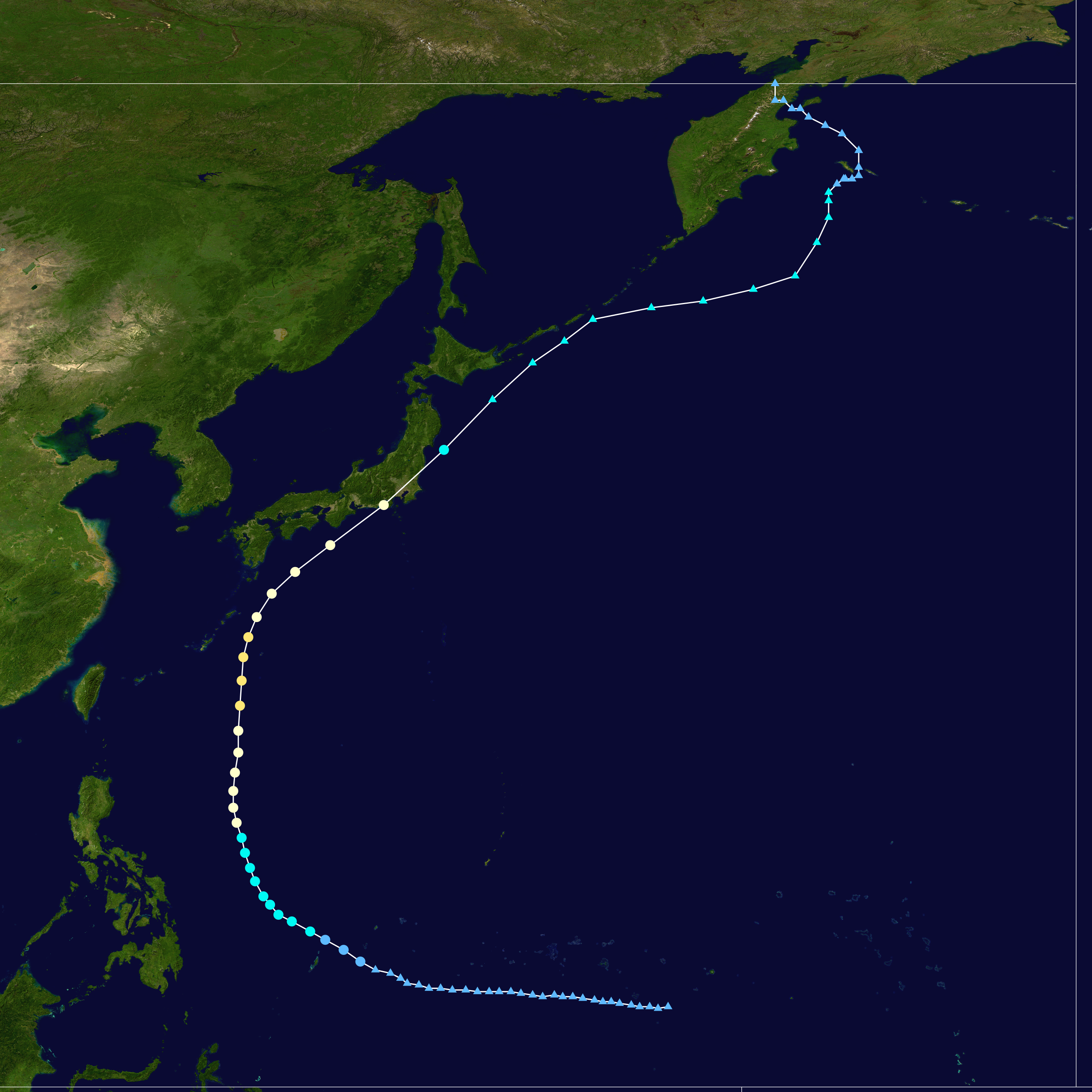 Typhoon Irma 1985 track. Uses the color scheme from the Saffir-Simpson Hurricane Scale.